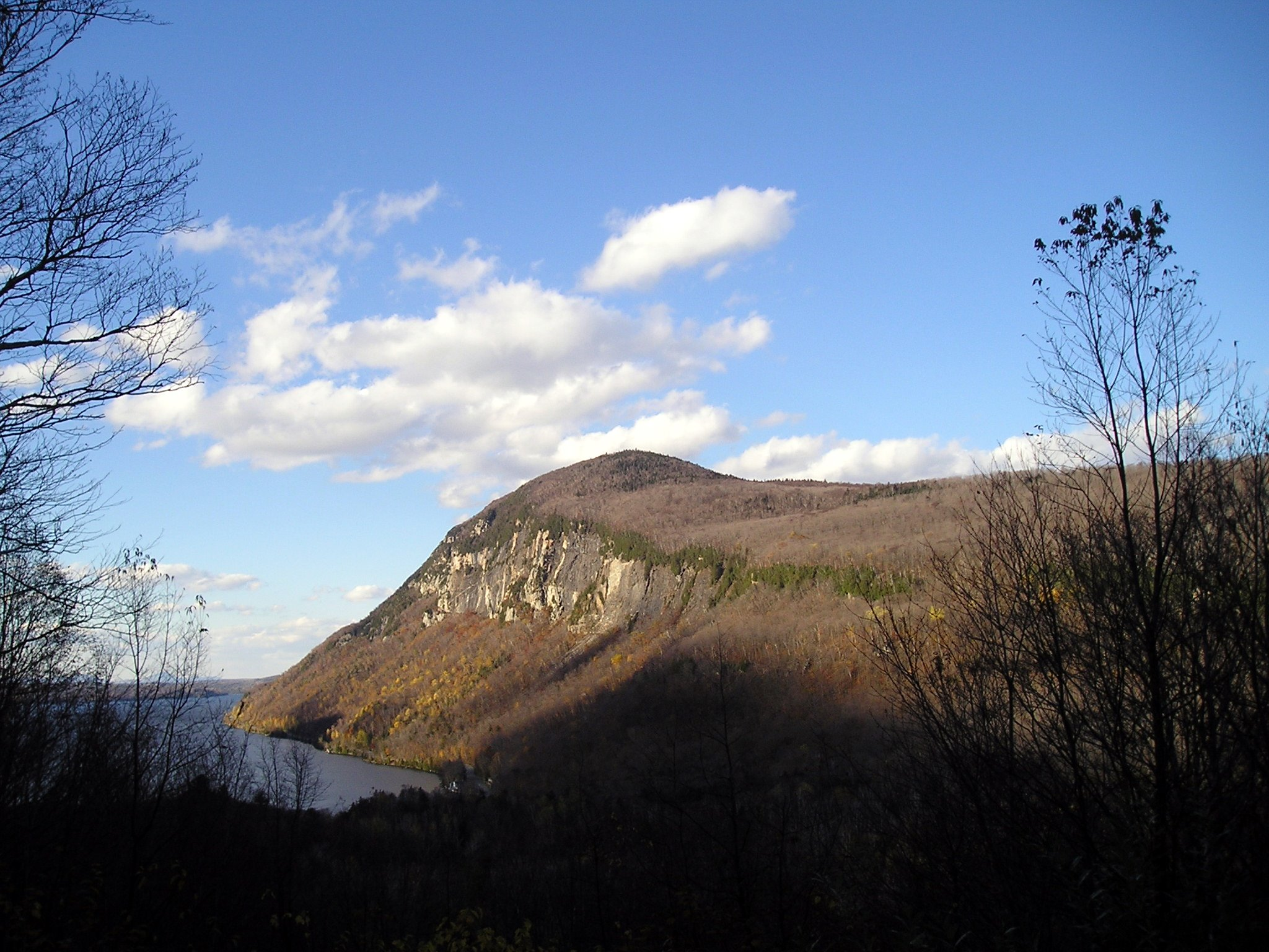 Mount Pisgah at Lake Willoughby in Westmore, Vermont